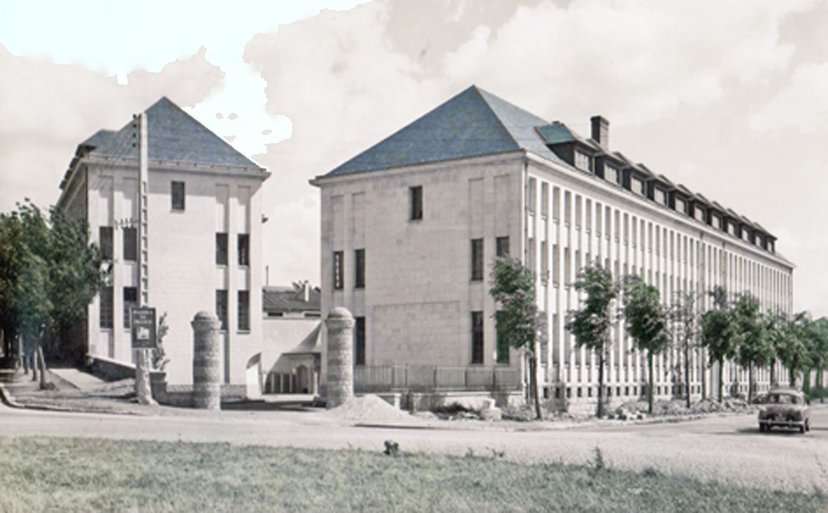 House of the Compagnons du Devoir in Angers.